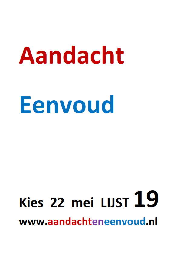 Poster used by the "Aandacht en Eenvoud partij" in the European parliament elections of 2014